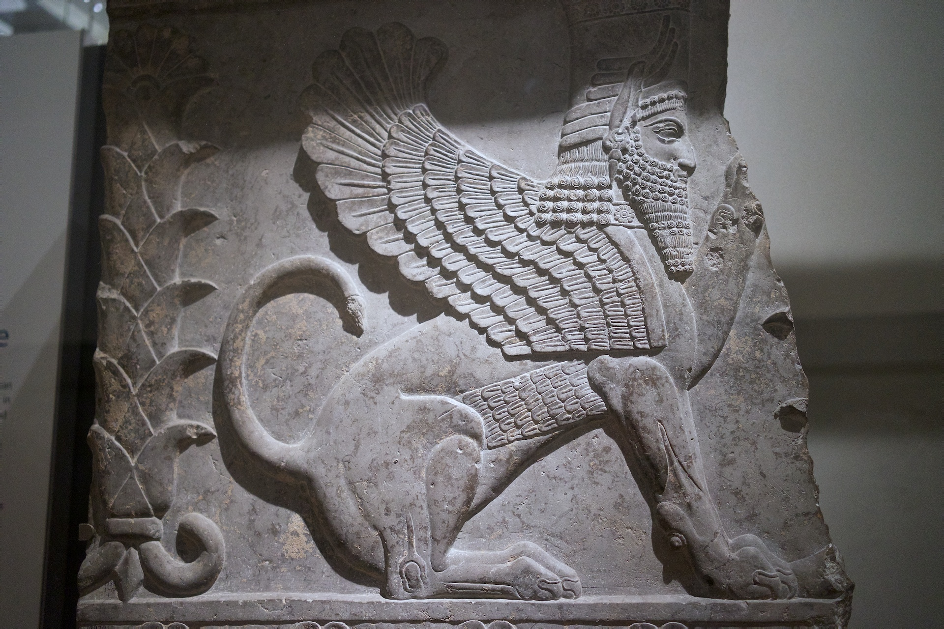 British Museum